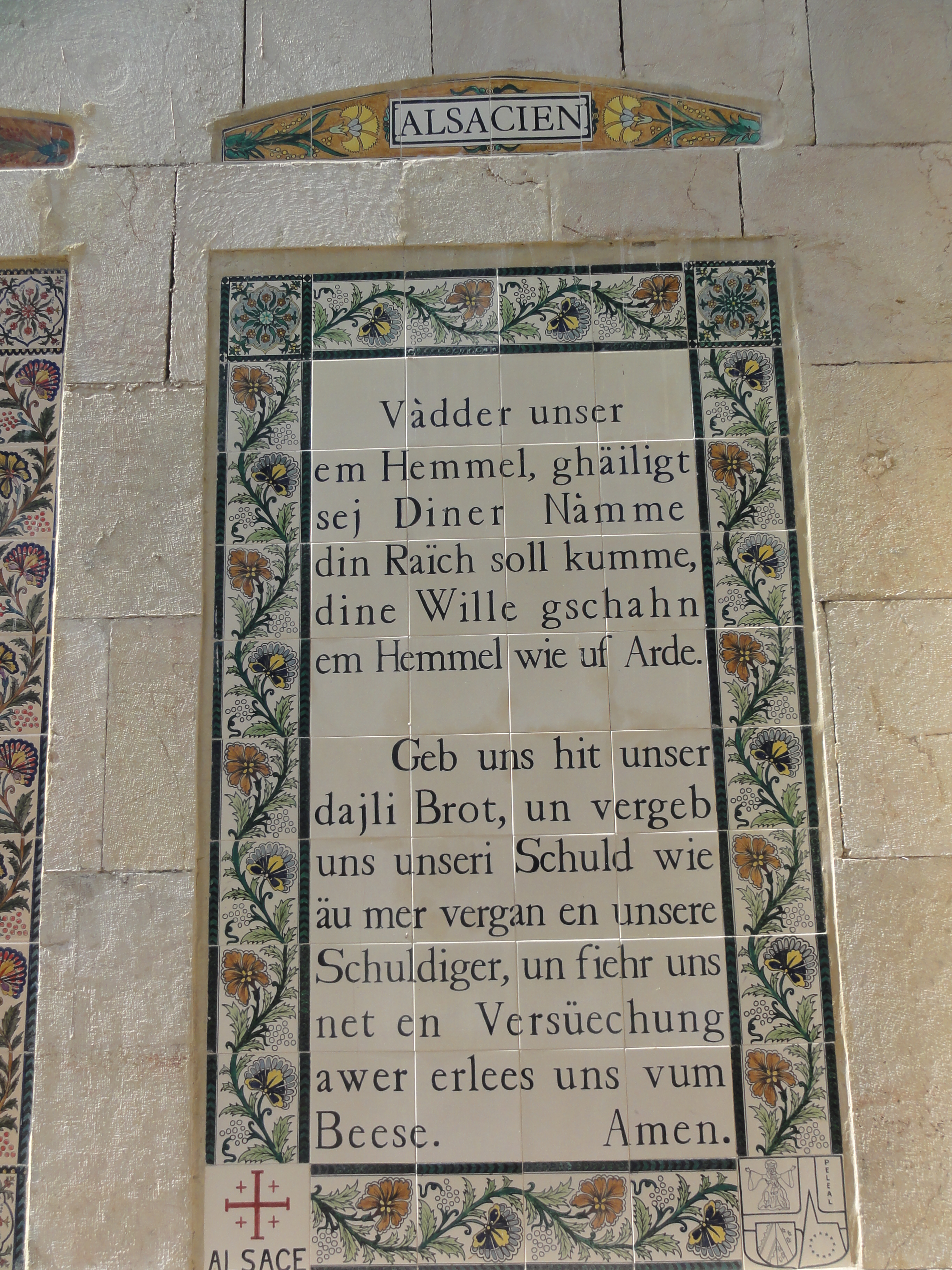 Church of the Pater Noster, Jerusalem: Lord's Prayer, Alsatian language.